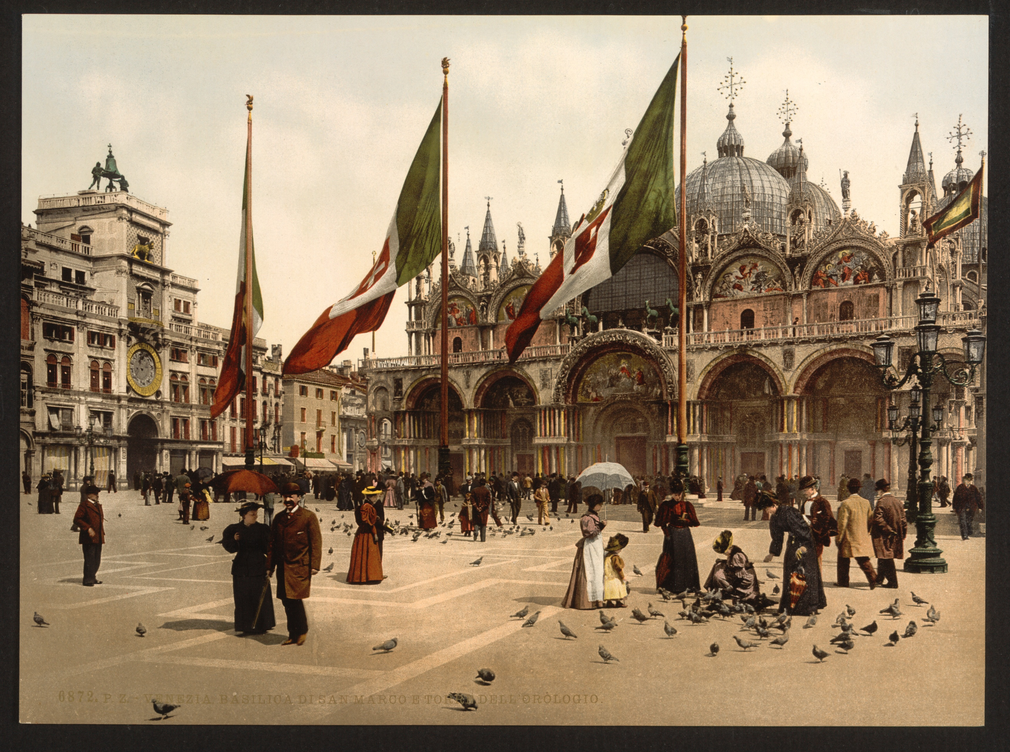 More information about the Photochrom Print Collection is available at Forms part of: Views of architecture and other sites in Italy in the Photochrom print collection.; Title from the Detroit Publishing Co., Catalogue J-foreign section, Detroit, Mich. : Detroit Publishing Company, 1905.; Print no. "6872".